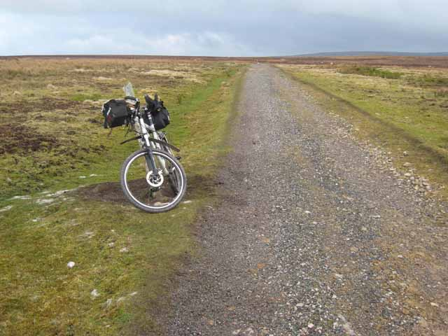 W2W - Tan Hill to Sleightholme At one stage, it seems that a motorable road ran through from Tan Hill to Bowes, but now the upper part above Sleightholme has been abandoned. It still forms a useful link for cyclists and has been incorporated into the W2W (Walney to Wear) Cycle Route